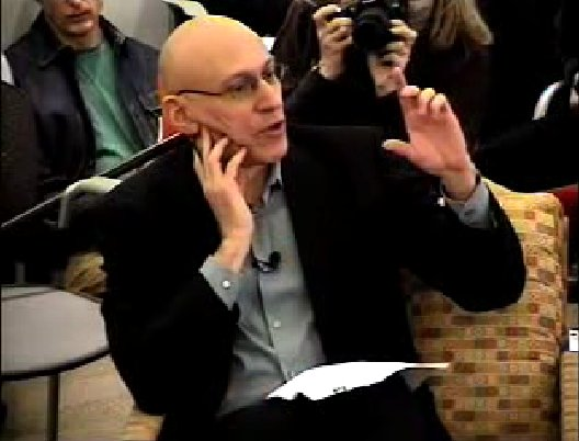 David Shields at The Philoctetes Center